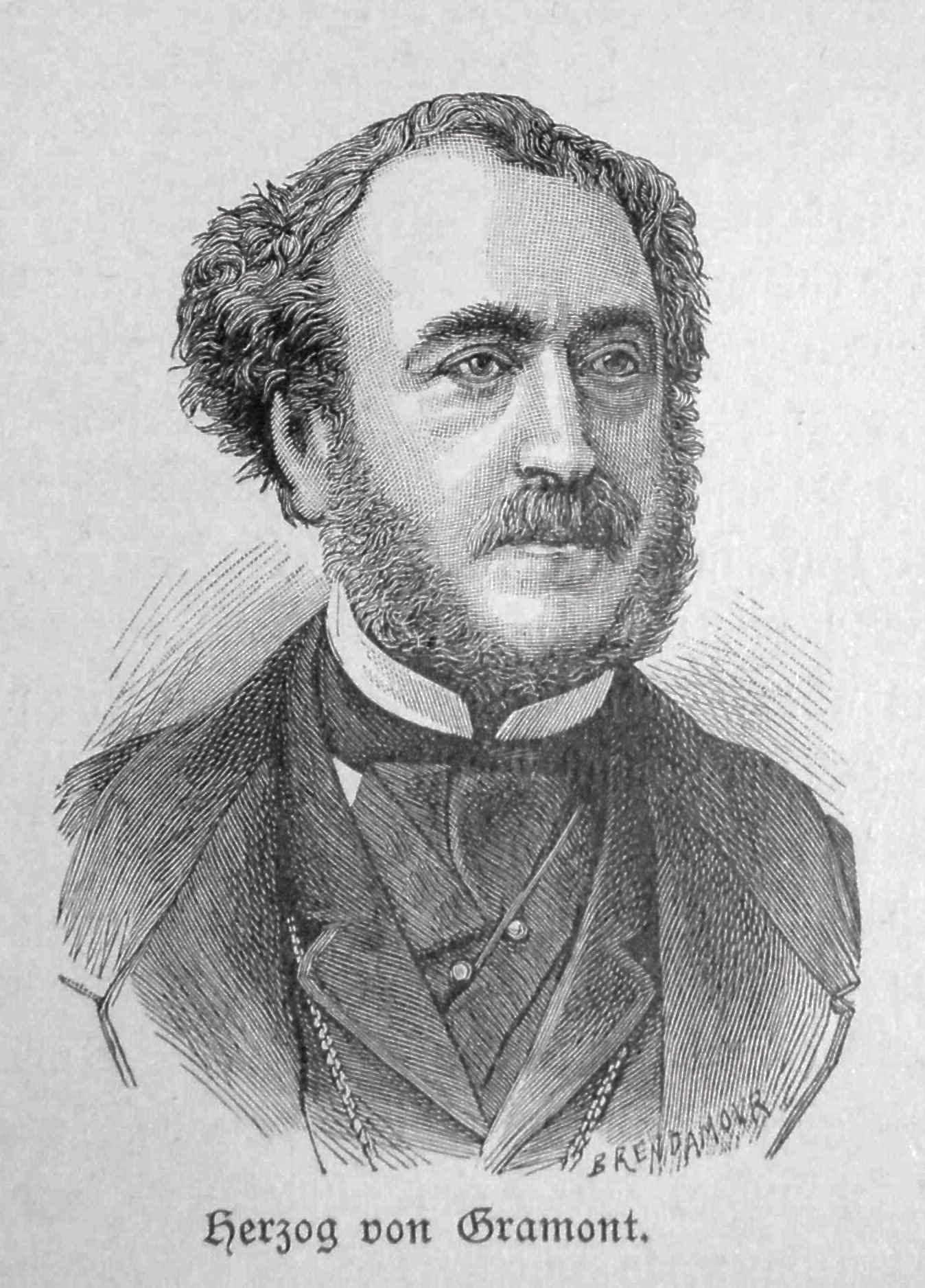 Duke of Gramont